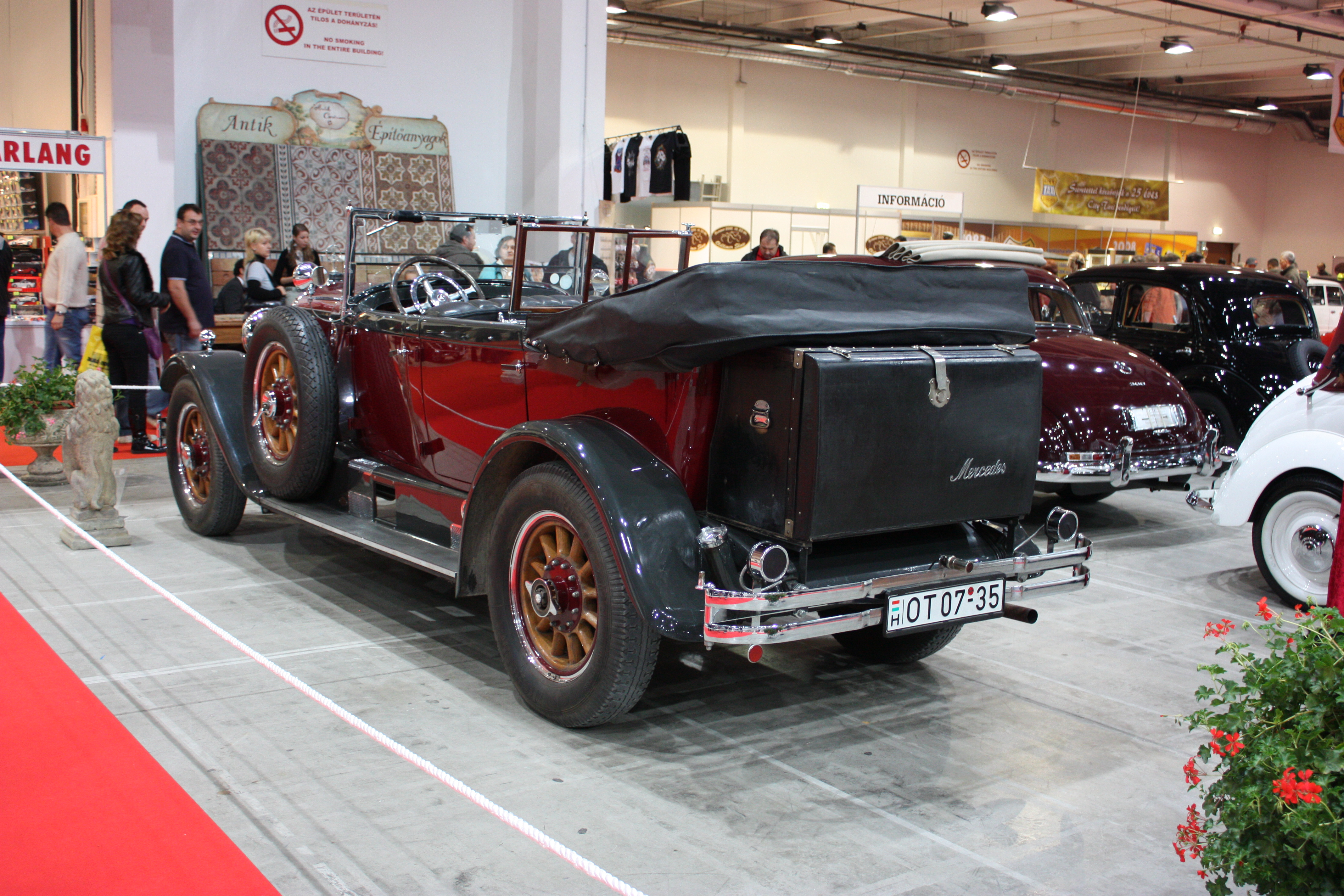 Oldtimer Show 2008.